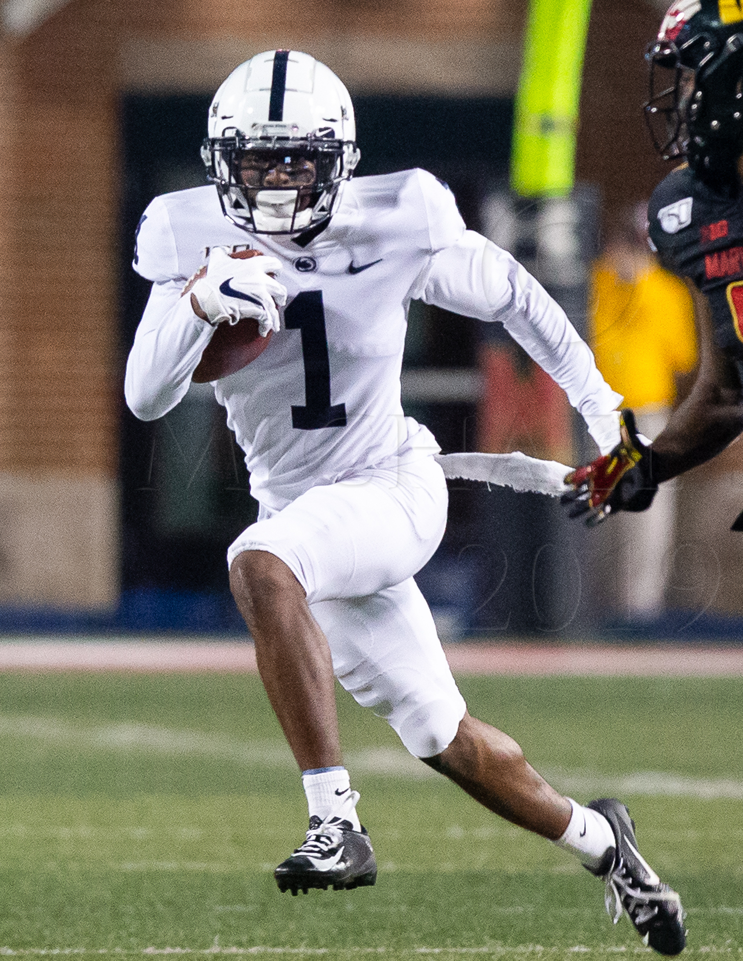 College Park, MD, Friday, September 27, 2019: Penn State Nittany Lions wide receiver KJ Hamler (1) breaks loose for a first quarter touchdown during a B1G football between Maryland and Penn State at Capital One Field at Maryland Stadium in College Park, MD. (Michael R. Smith/The Prince George's Sentinel).